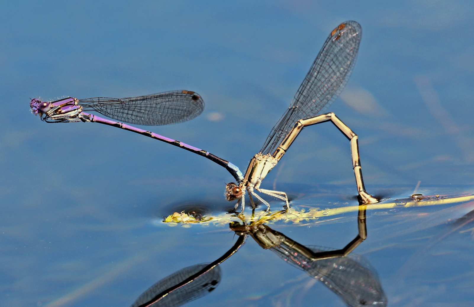 Oviposition of Argia violacea fumipennis